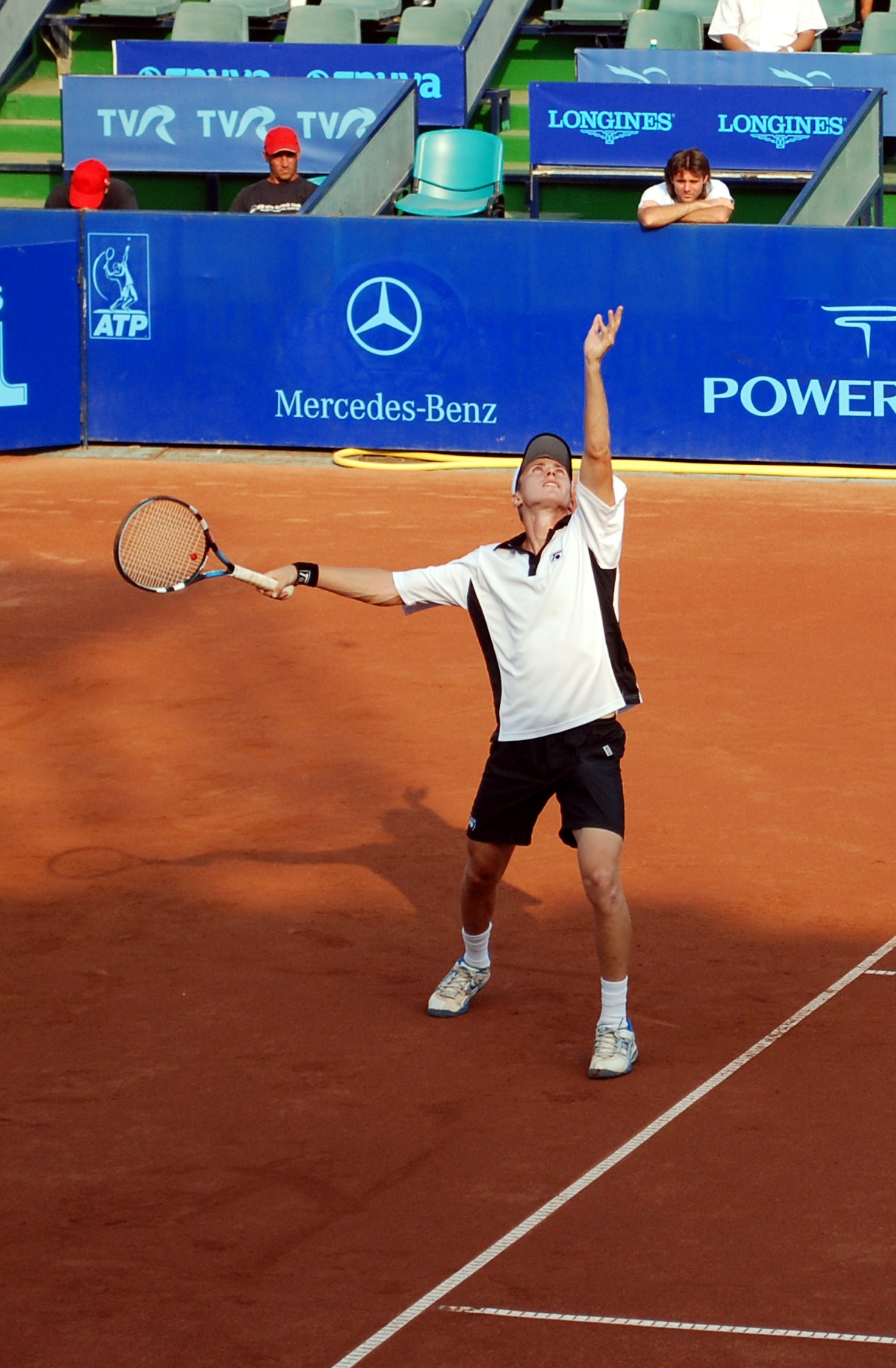 Romanian tennis player Victor Crivoi at the 2008 BCR Open Romania in Bucharest